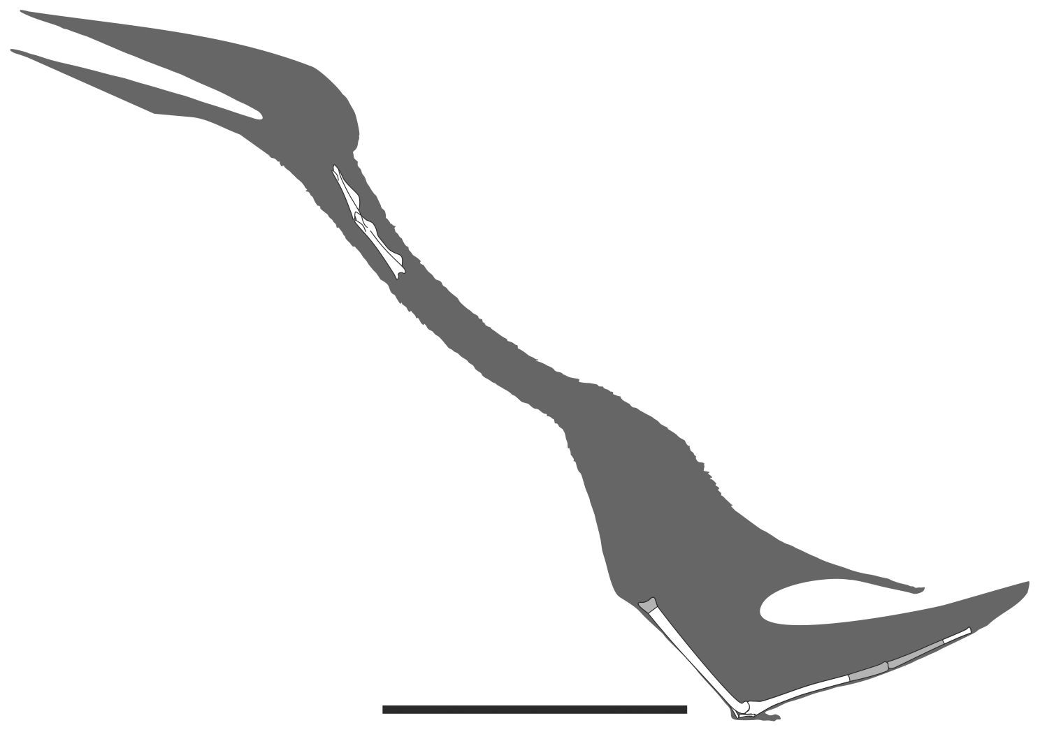 Full body reconstruction of Eurazhdarcho langendorfensis. Preserved skeletal elements are in white. Scale bar is 500 mm.